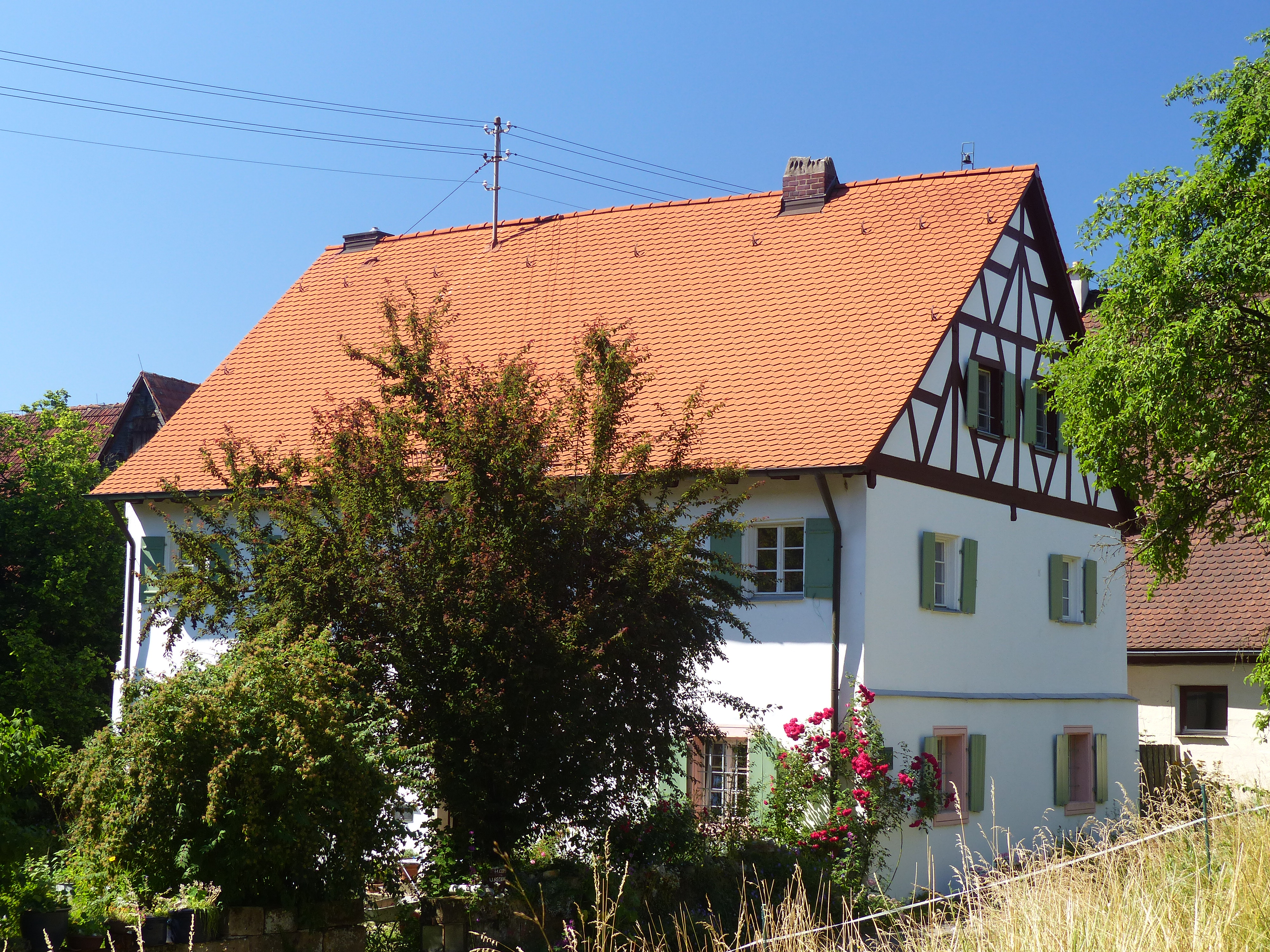 The vicarage of the church village Walkersbrunn, a district of the town of Gräfenberg.